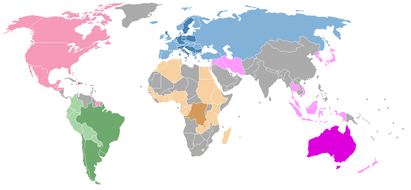 Shows teams of en:1974 FIFA World Cup qualification on a world map